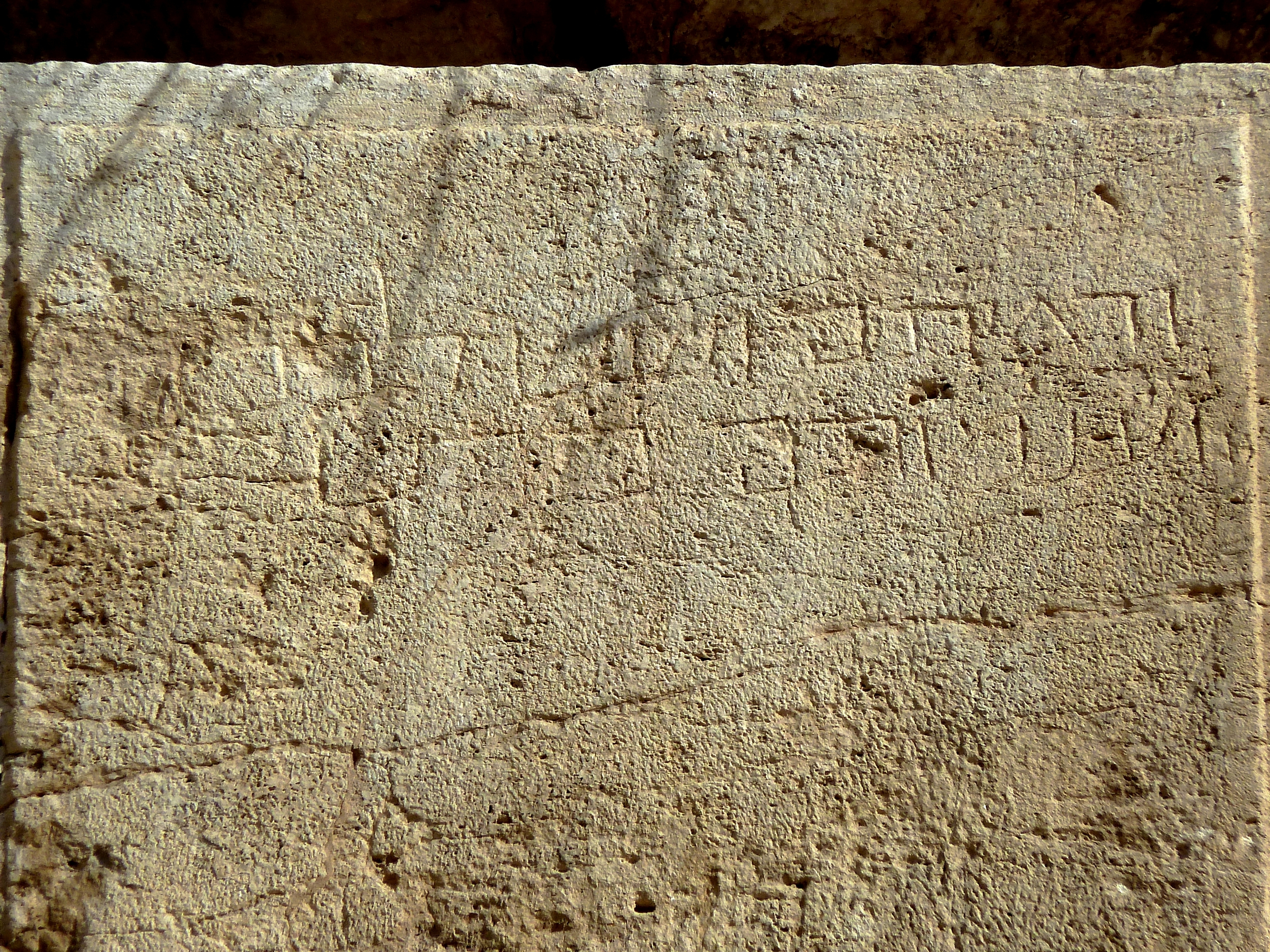 Jerusalem Western Wall Isaiah 66:14 verse closeup : וראיתם ושש לבכם ועצמותם כדשא (“When you see this, your heart will rejoice and their limbs like grass”)